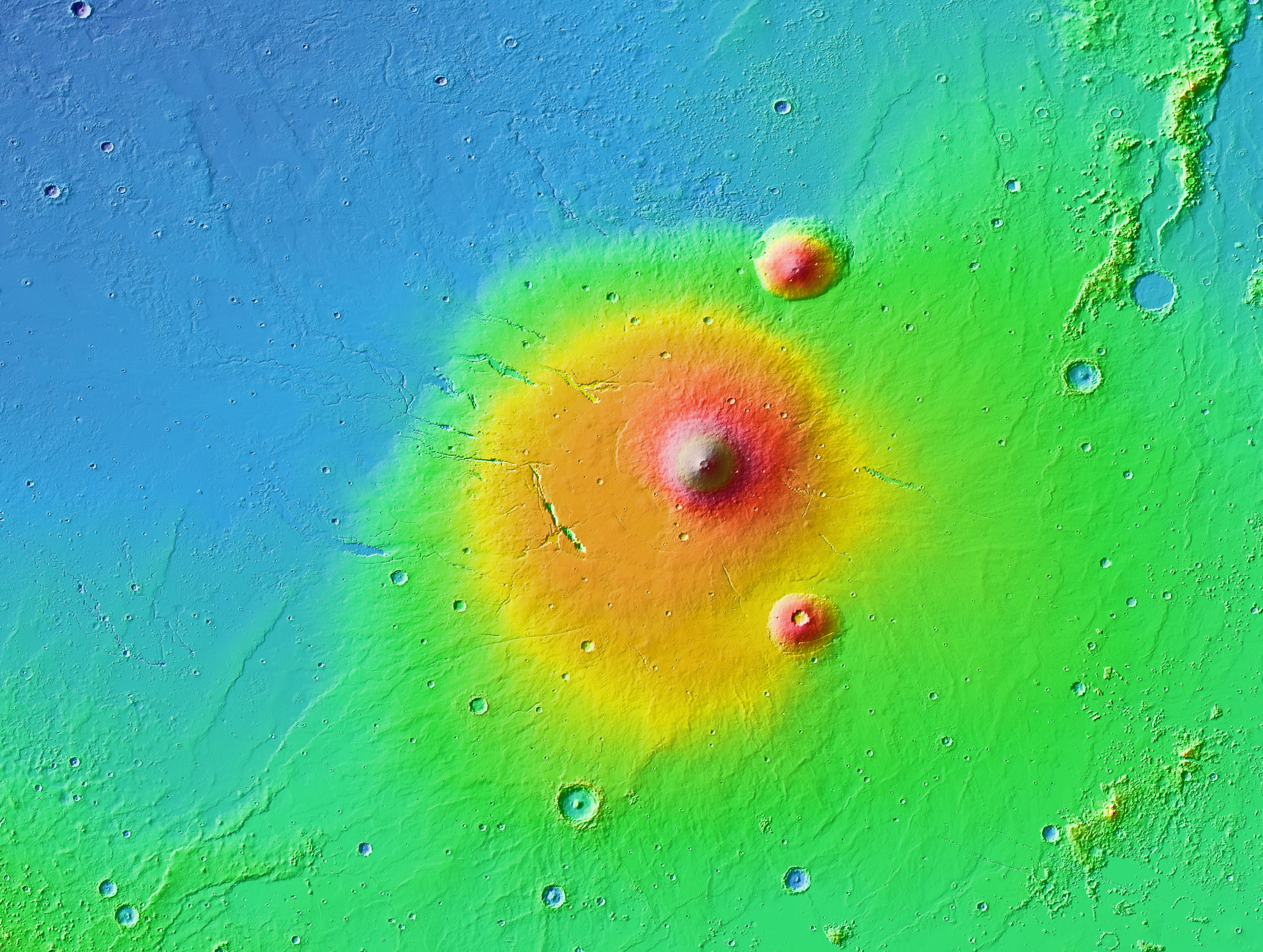 A colorized topographic map of the volcanic province Elysium, together with its surroundings, from the Mars Orbiter Laser Altimeter (MOLA) instrument of the Mars Global Surveyor spacecraft. Elysium, in the eastern hemisphere of Mars, is the second largest volcanic region on the planet, after Tharsis. The largest shield volcano, Elysium Mons, is at center, while the smaller volcanoes Hecates Tholus and Albor Tholus are to the former's upper and lower right, respectively.Some of the features in this image are annotated in Wikimedia Commons.